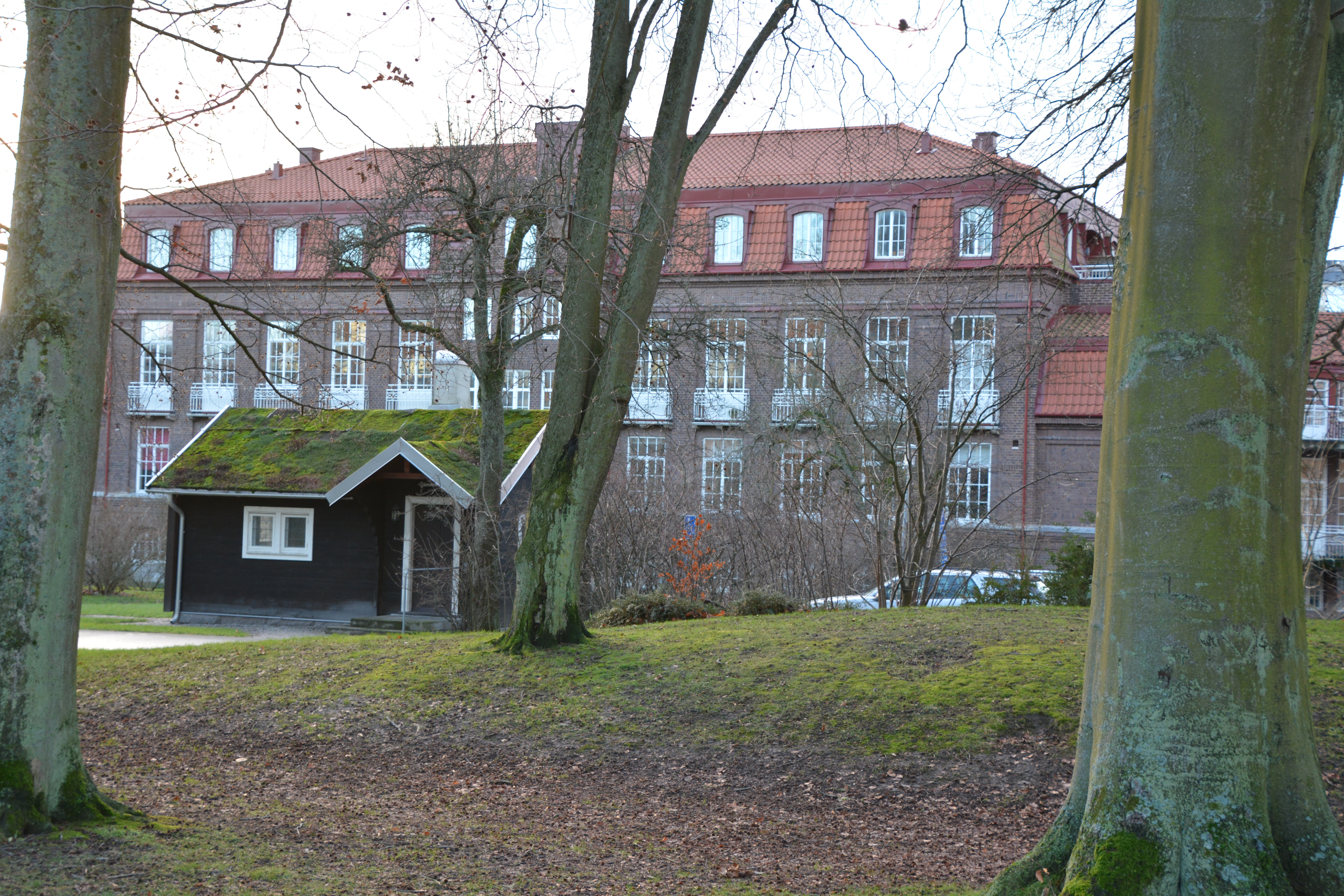 Nya Ribbingska sjukhemmet, Lund med Blendas stuga framför